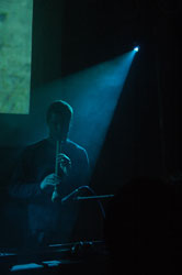 Lithuanian post-folk and ambient act "Donis"